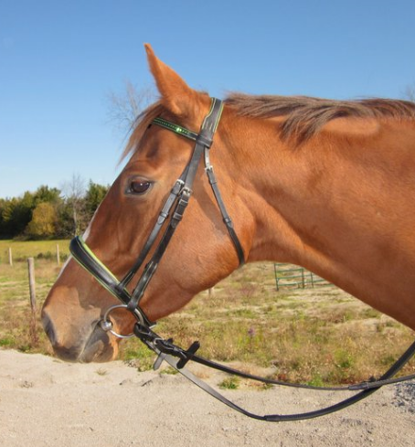 Chestnut Horse With Loose Ring Snaffle Bit